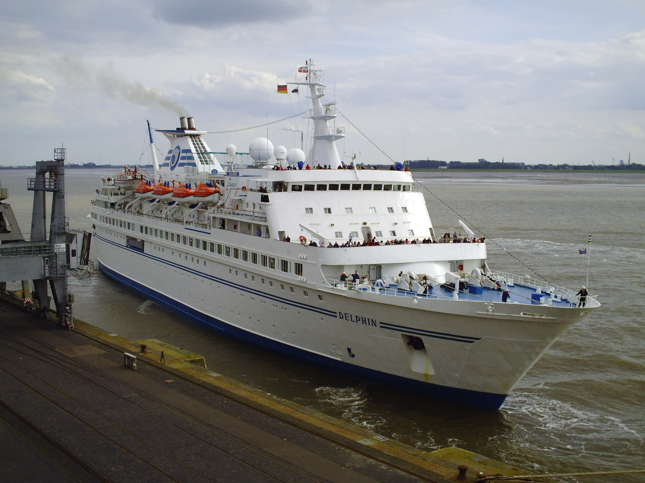 The cruise ship Delphin is leaving Bremerhaven, Germany